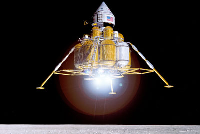 FLO Eagle lander